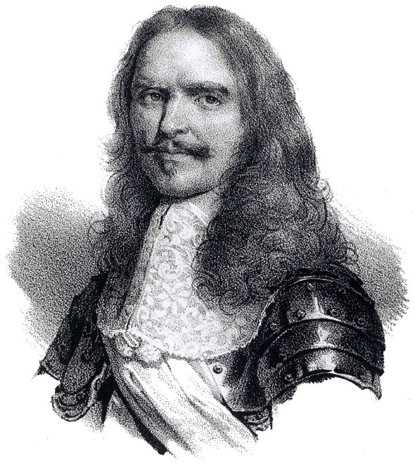 Portrait of Henri de La Tour d'Auvergne, French aristocrat and general